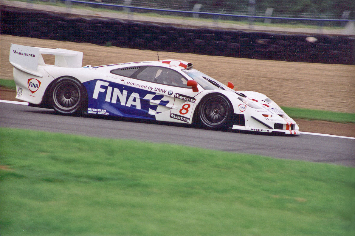 McLaren F1 Steve Soper Donnington 1997 Team BMW Motorsport McLaren F1 GTR